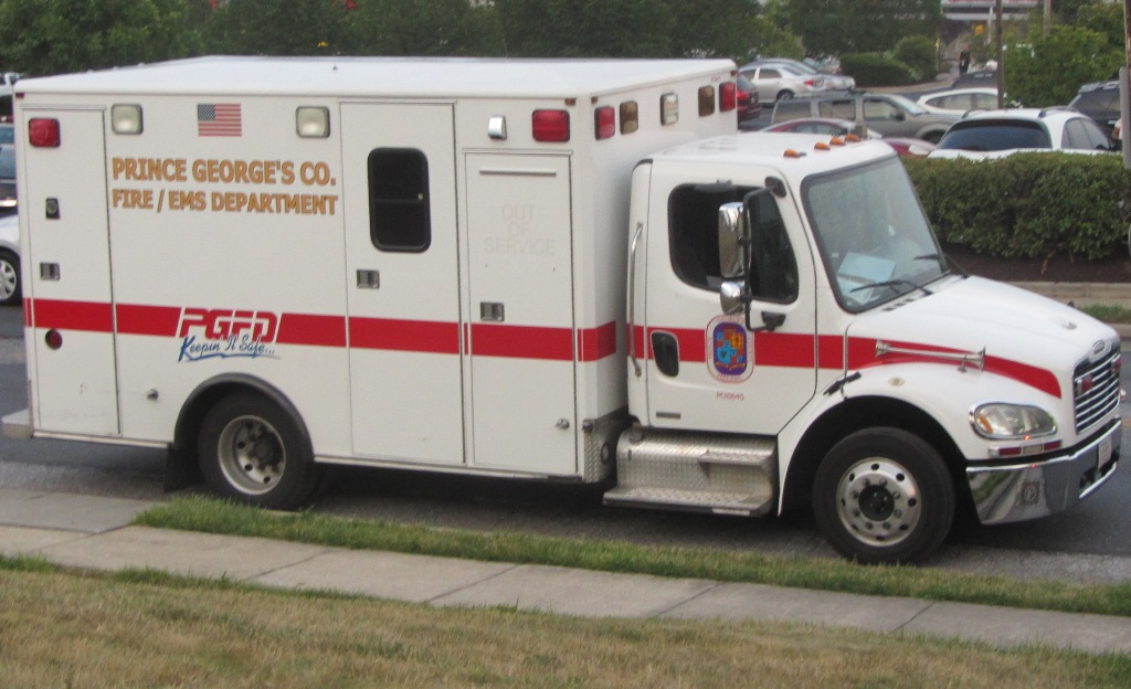 A Prince George's County Fire & EMS ambulance in July 2012.